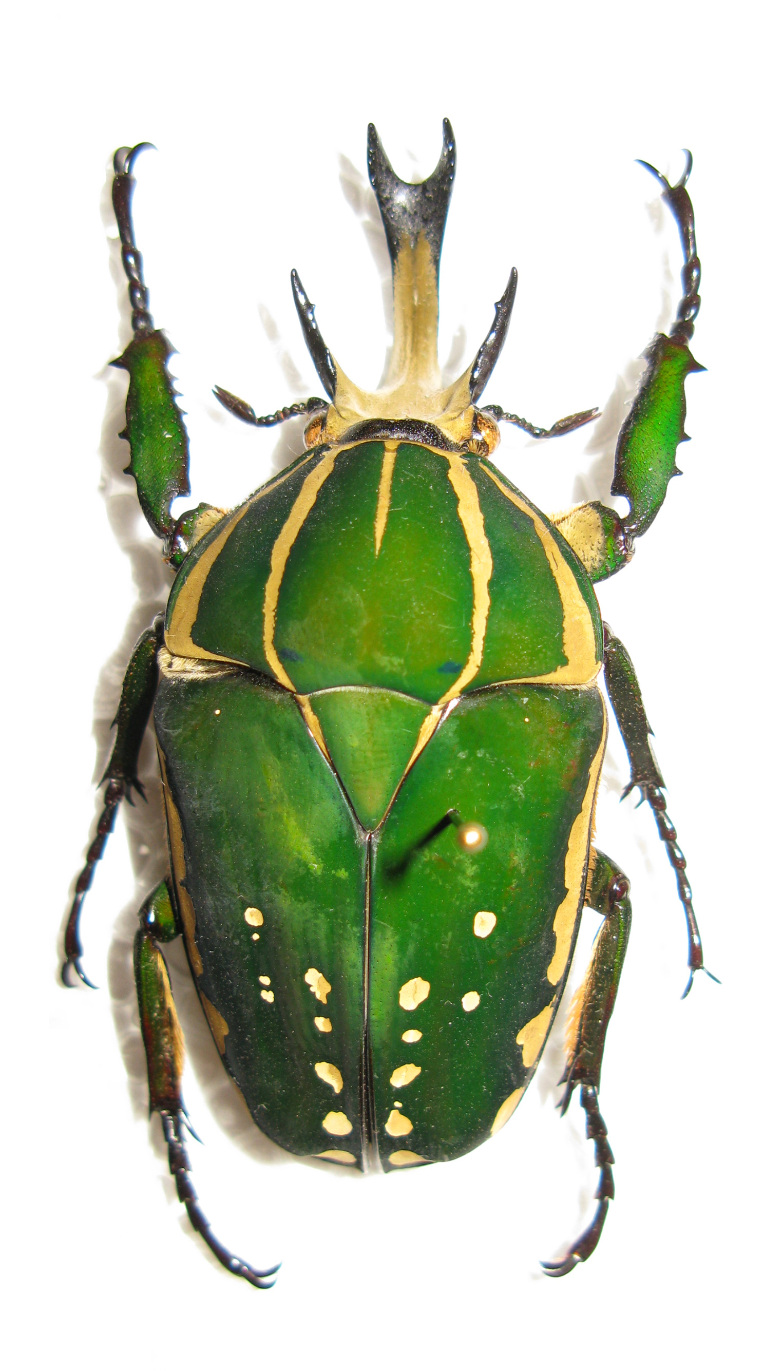 Chelorrhina polyphemus